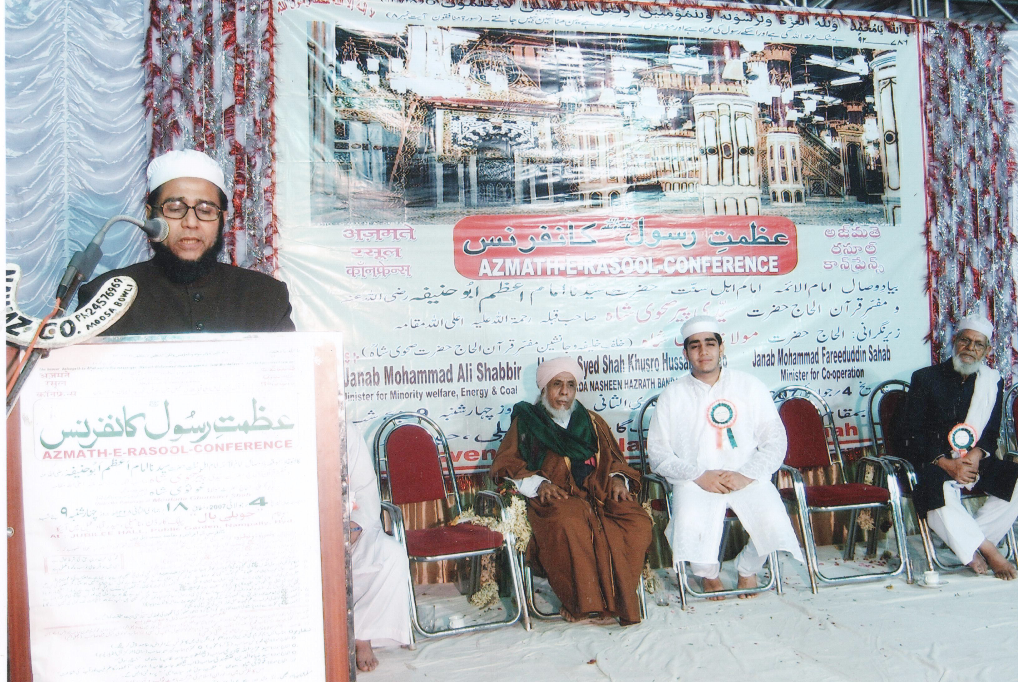 First Azmath-E-Rasool Conference photo